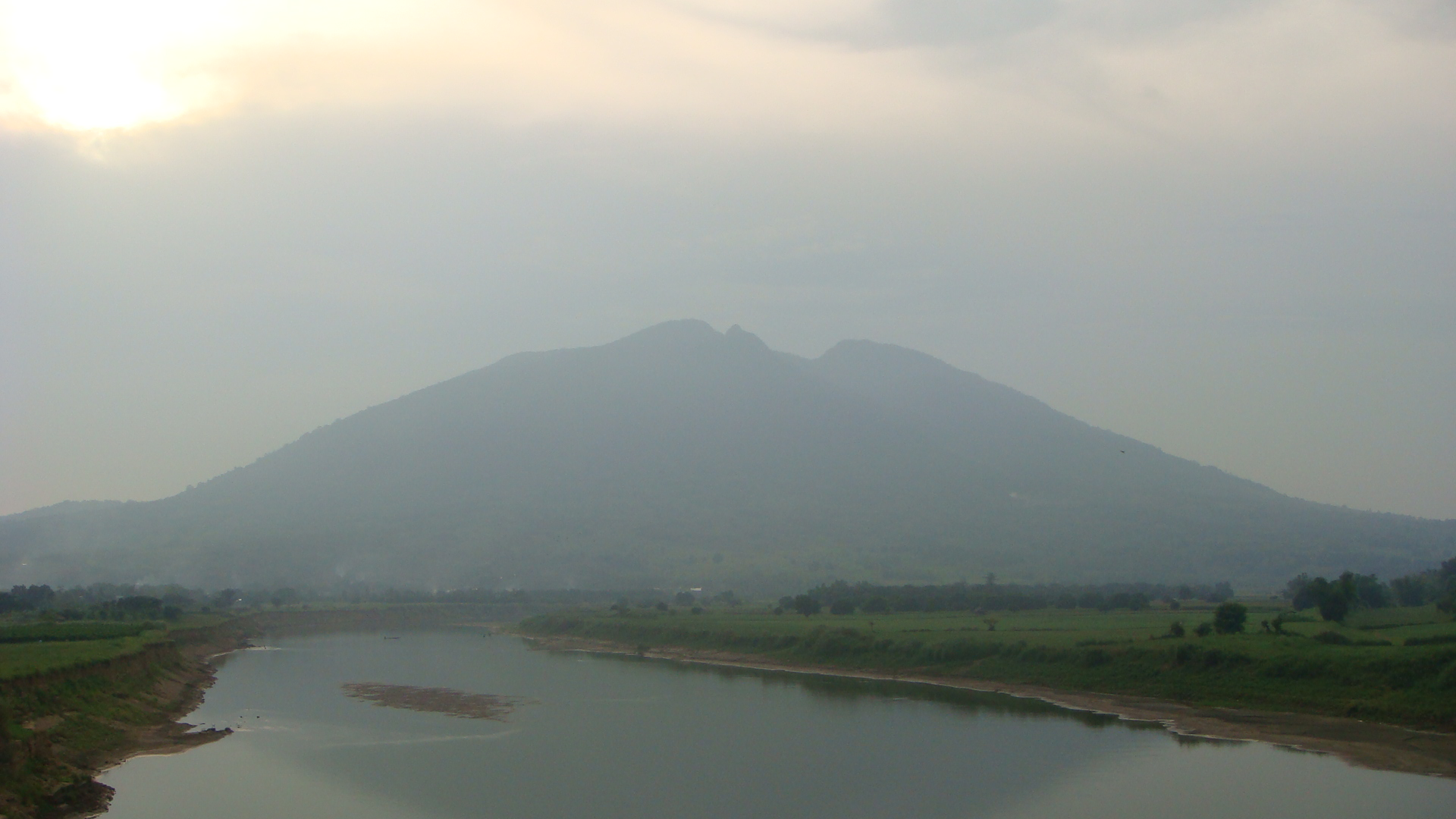 Mount Arayat and Pampanga river view from Arayat bridge